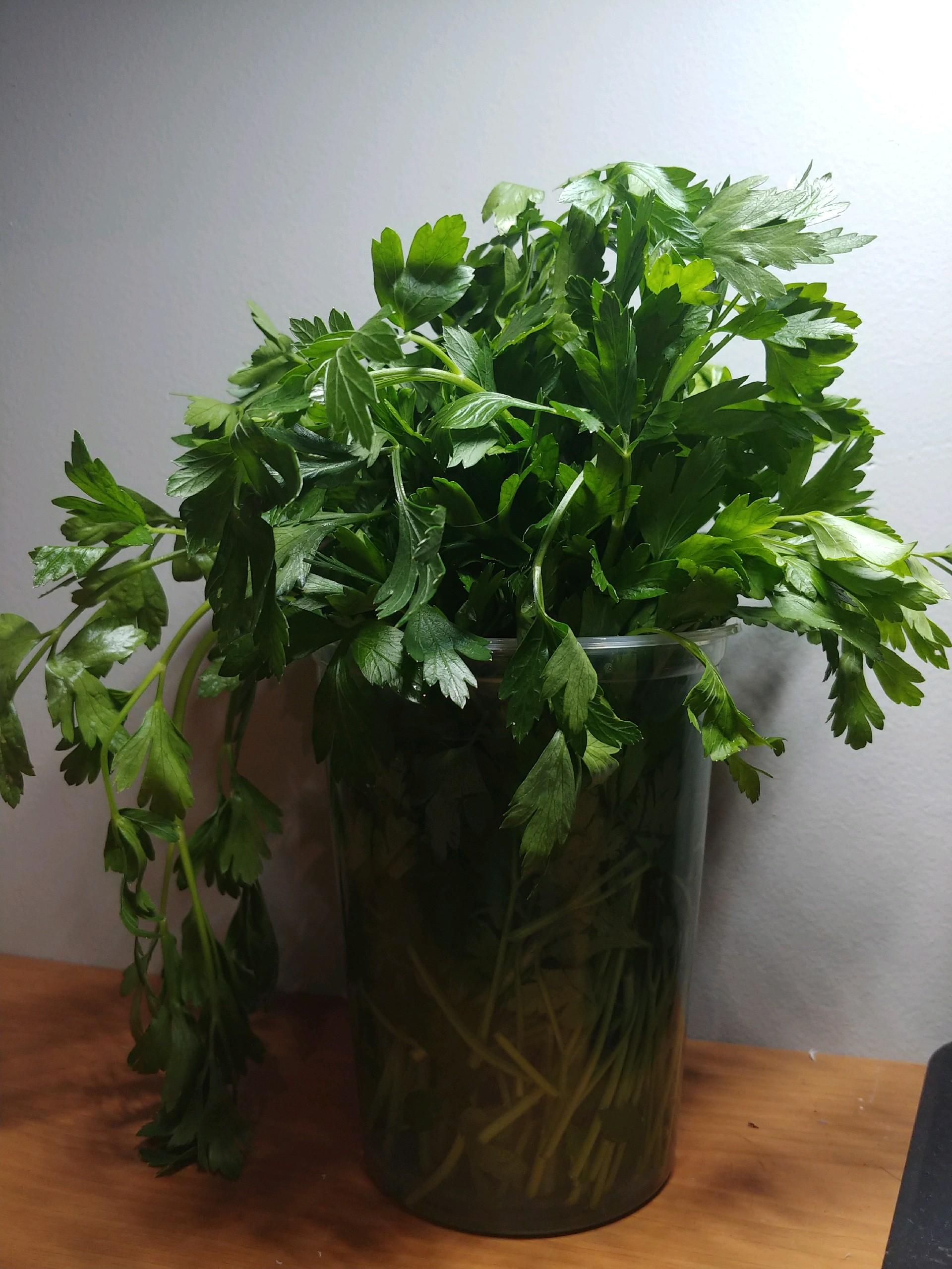 Parsley leaves were historically used in bunches over extended periods of time to induce abortion.